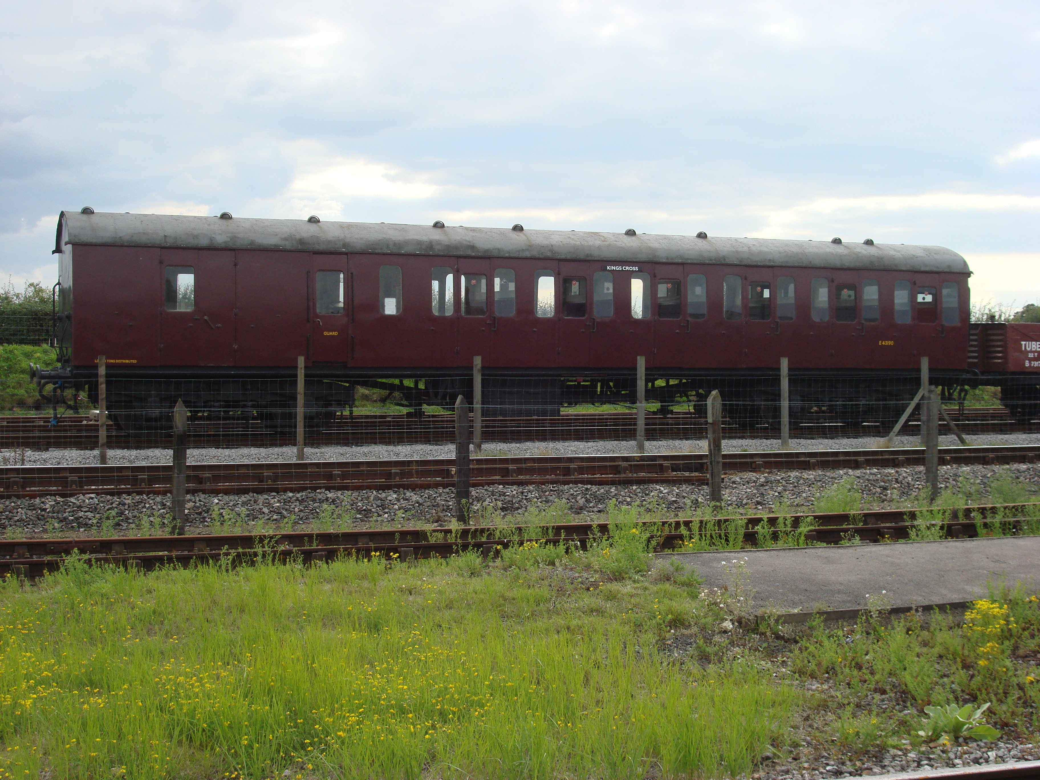 British Rail Mk1 Brake Suburban E43190